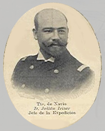 Clip of postcard image of ARA (Argentine Navy) Capitán de Corbeta (Lieutenant Commander) Julien Irizard taken from website image page at